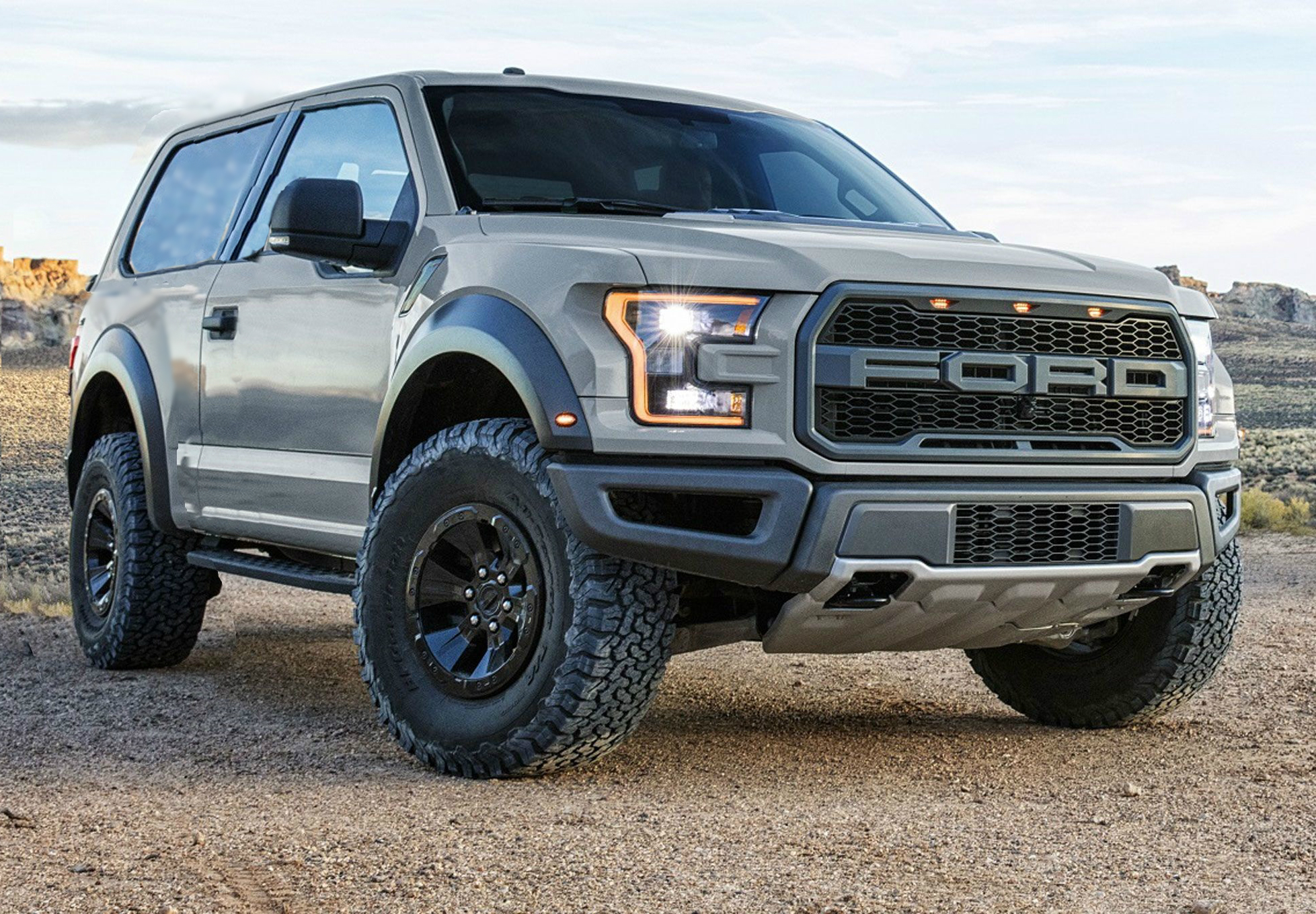 A new Bronco has been confirmed. Hopefully it isn't a softroader. A shorted Raptor might work just fine.